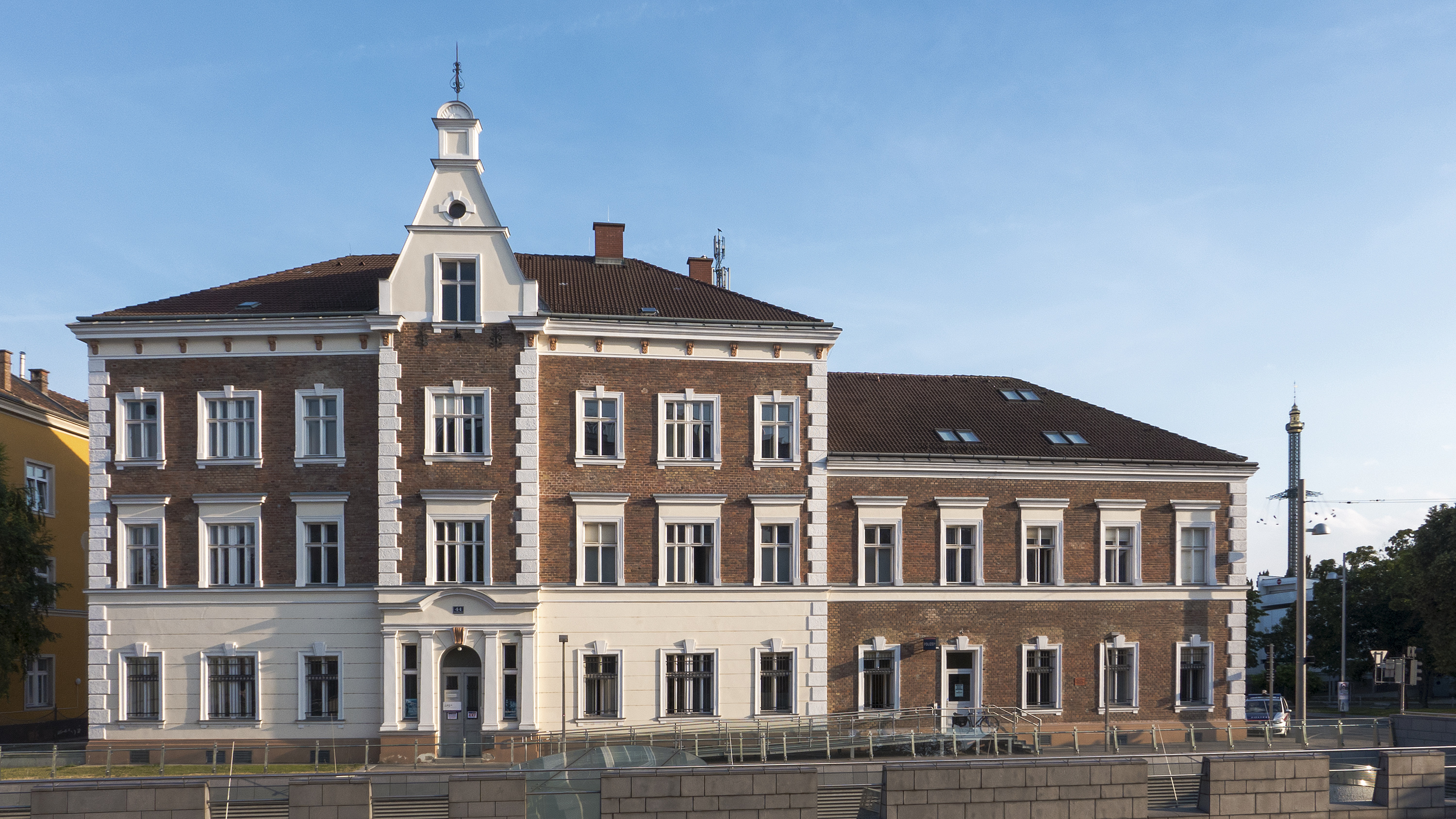 Police departement Ausstellungsstraße in Vienna 2